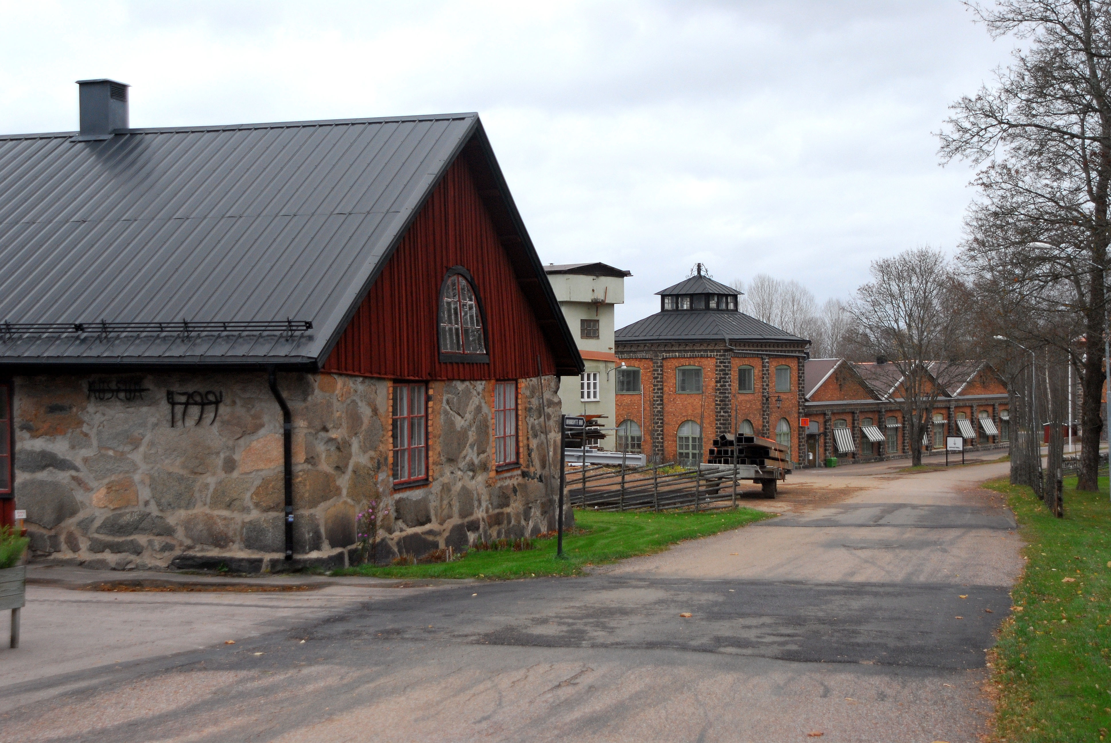 Wikmanshyttan steelworks. The entrence to Wikmanshyttan steelworks. The building to the left is "Vikmanshyttans bruksmuseum" ("Vikmanshyttan Works Museum". The building itself, built in 1799, was originally used as the steelworks carpenters workshop.). Hedemora municipality, Sweden